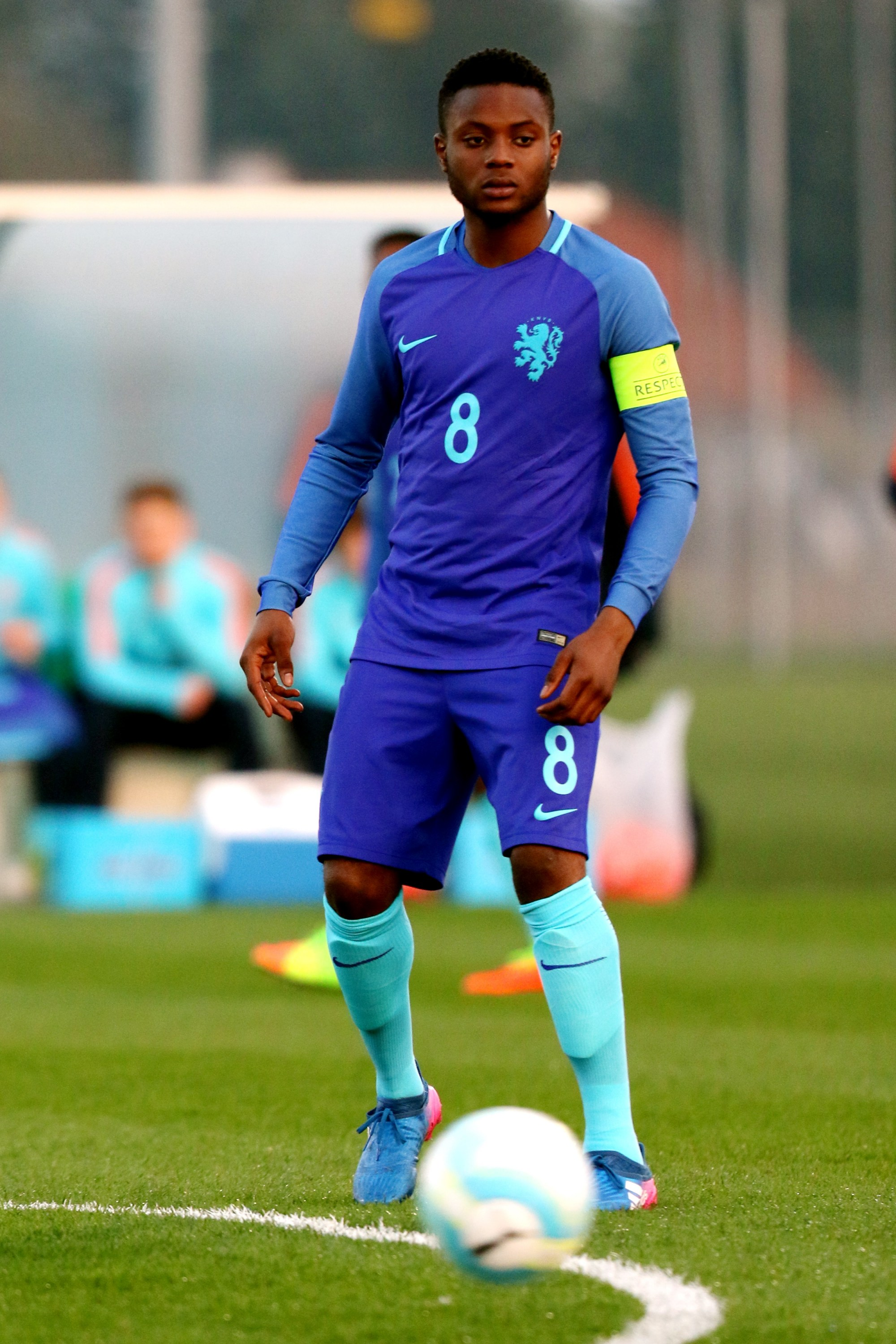 Friendly match Austria national under-18 football team (red shirts) vs. Netherlands national under-18 football team (blue shirts) 1–1 (1–0) on 2017-03-23 in Eggendorf – The photo shows Leandro Fernandes (PSV Eindhoven U19)